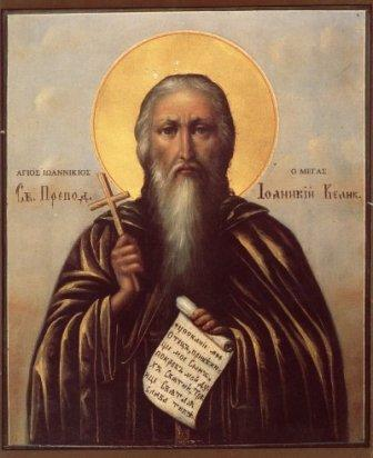 Saint Joannicius the Great, Eastern Orthodox icon from Russia. Venerable Joannicius the Great (752, village Marikat, Bithynia - † November 4, 846 in Antidium) was a respected Byzantine Christian saint, sage, theologian, prophet and wonderworker, the hermit of Mount Olympus (today known as Uludağ, near ancient Prussa, i.e. modern Bursa, Turkey), monk and abbot. One of the greatest monks of Christian East.